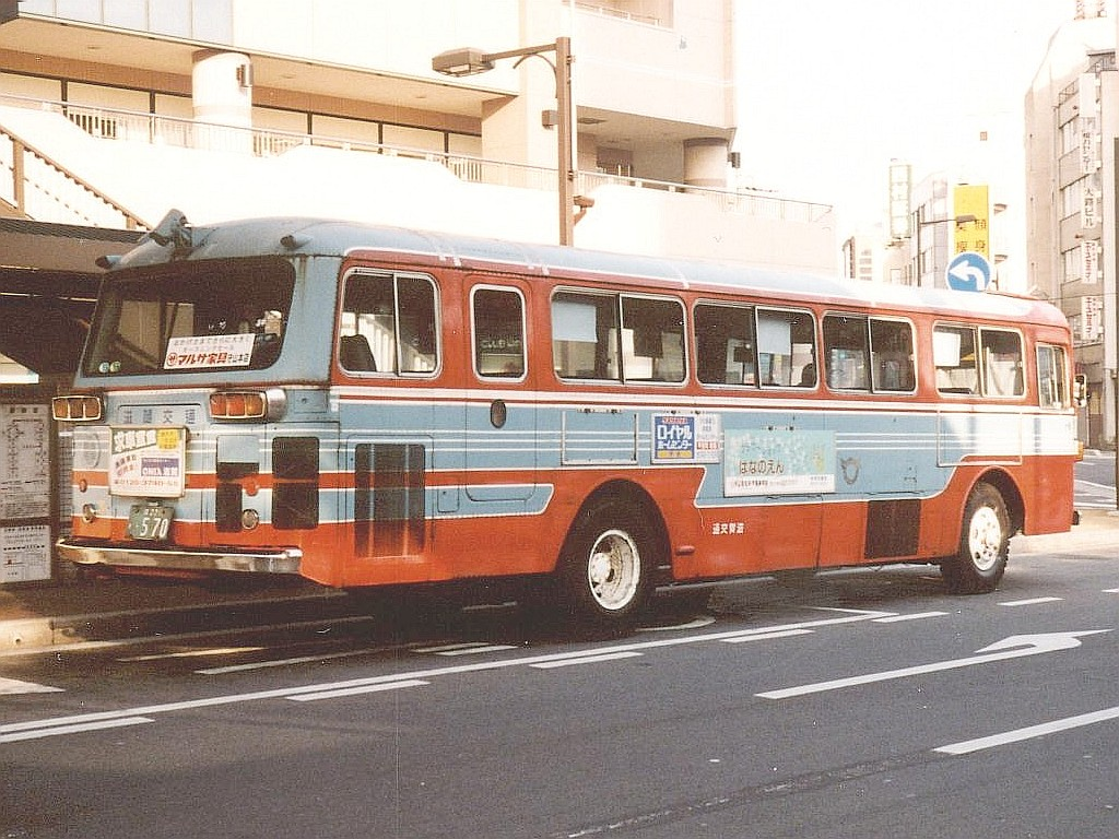 Company:Shiga Kotsu Use:transit bus Car license:滋22 か・570 Chassis manufacturer:Mitsubishi Motors Coachbuilder:Mitsubishi Fuso Oe Factory Place:in Kusatsu City, Shiga, Japan Scanned from negative color print